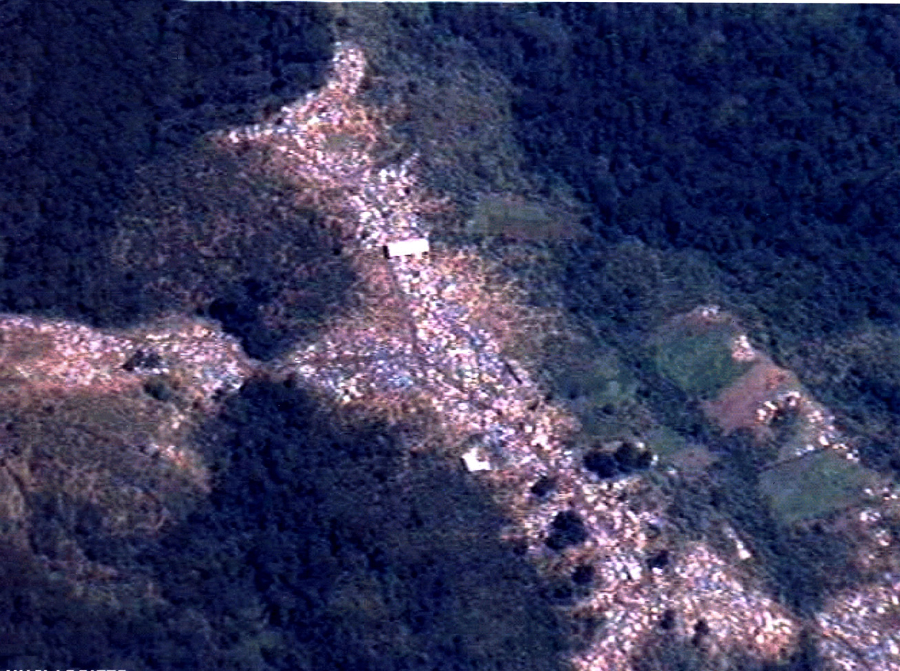 U.S. Navy aerial photograph of the Mihanda refugee camp taken on Dec. 2, 1996. DoD photo. ID 961202-N-0000O-002